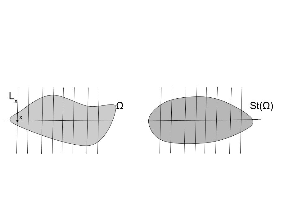 Steiner Symmetrization of set Omega